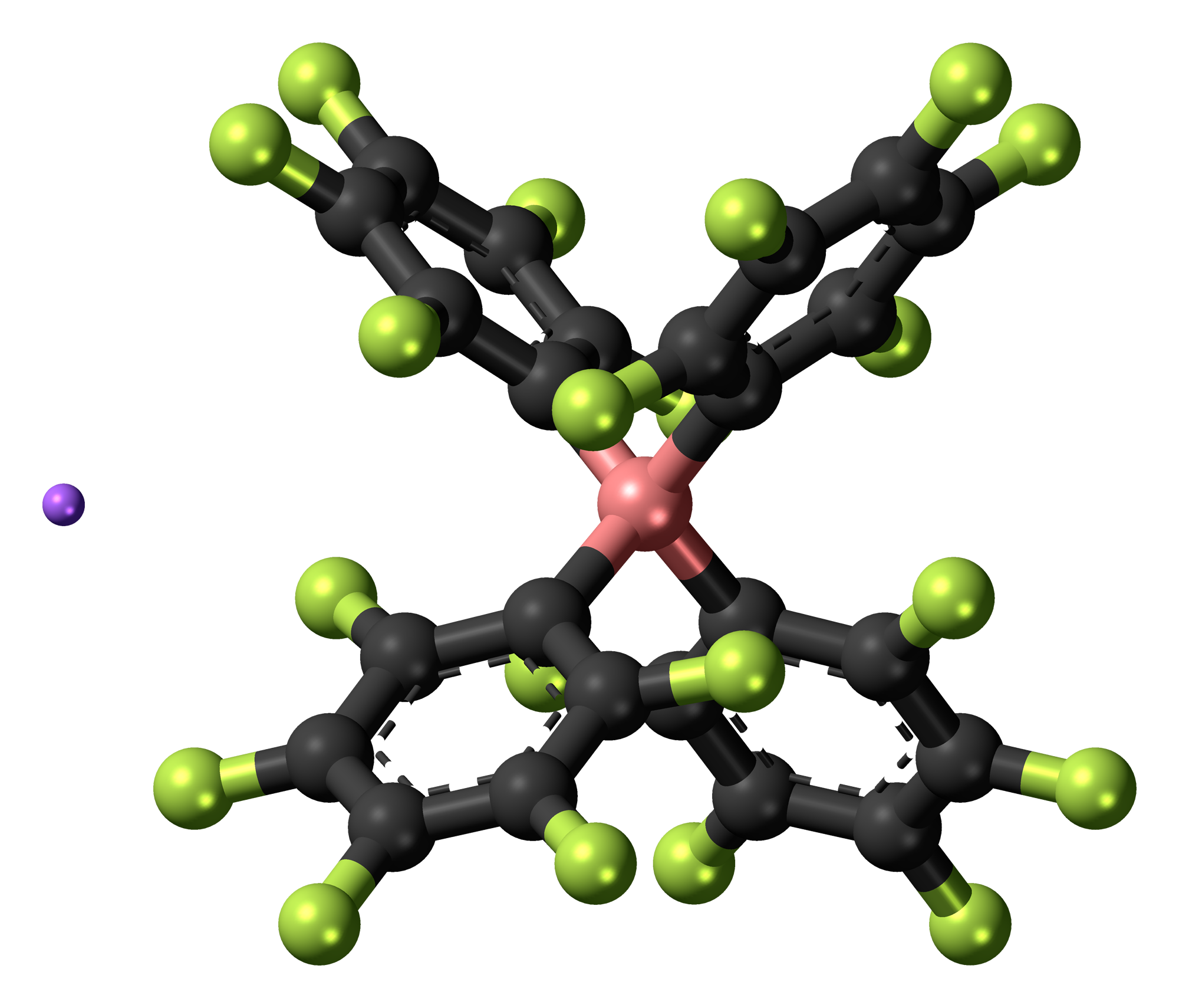 Ball-and-stick model of the lithium tetrakis(pentafluorophenyl)borate molecule. Color code: Carbon, C: black Lithium, Li: lilac Boron, B: pink Fluorine, F: yellow-green